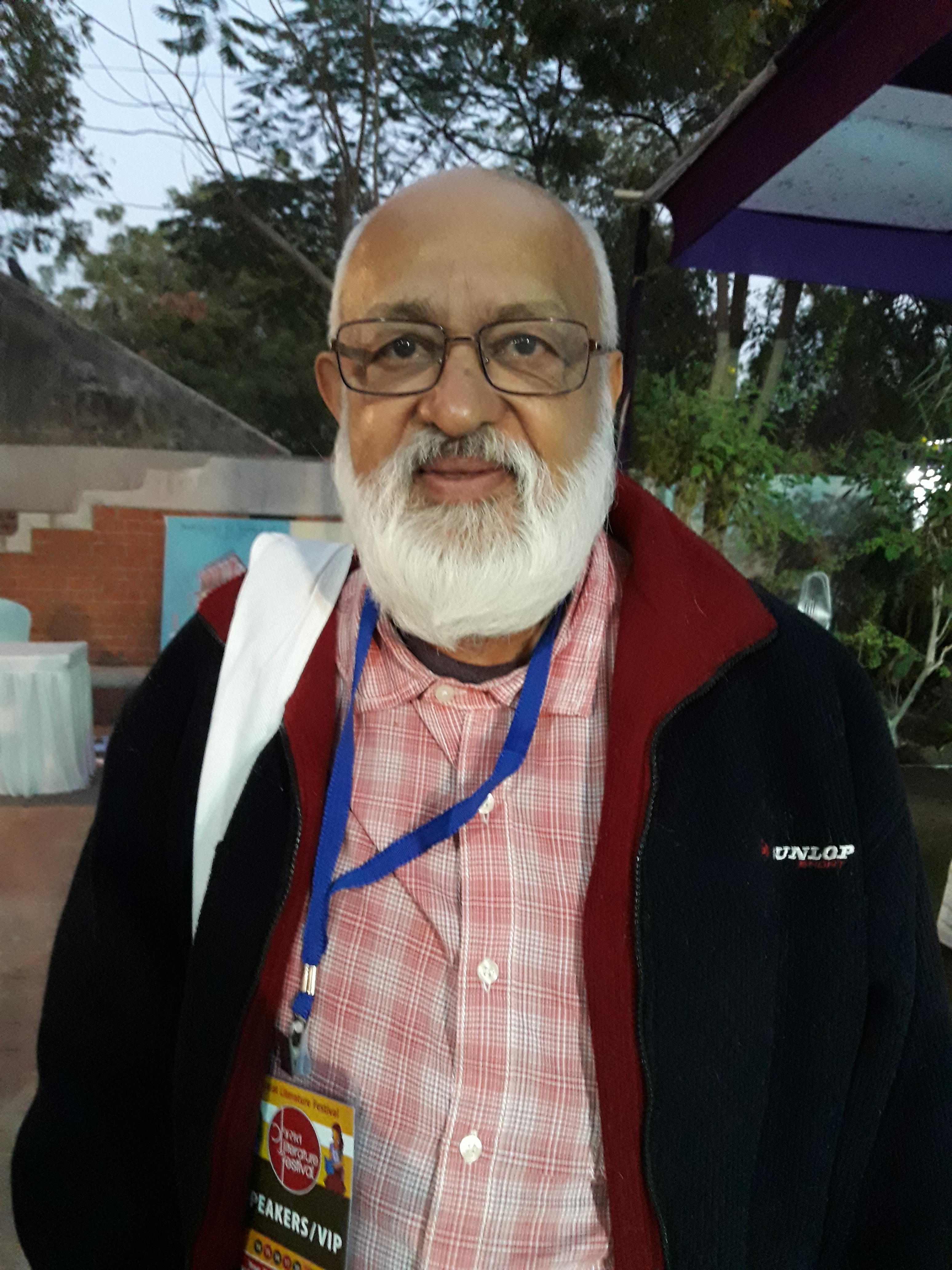 Indian historian and food critic Pushpesh Pant at Gujarati Literature Festival (GLF), Ahmedabad on 16 December 2016